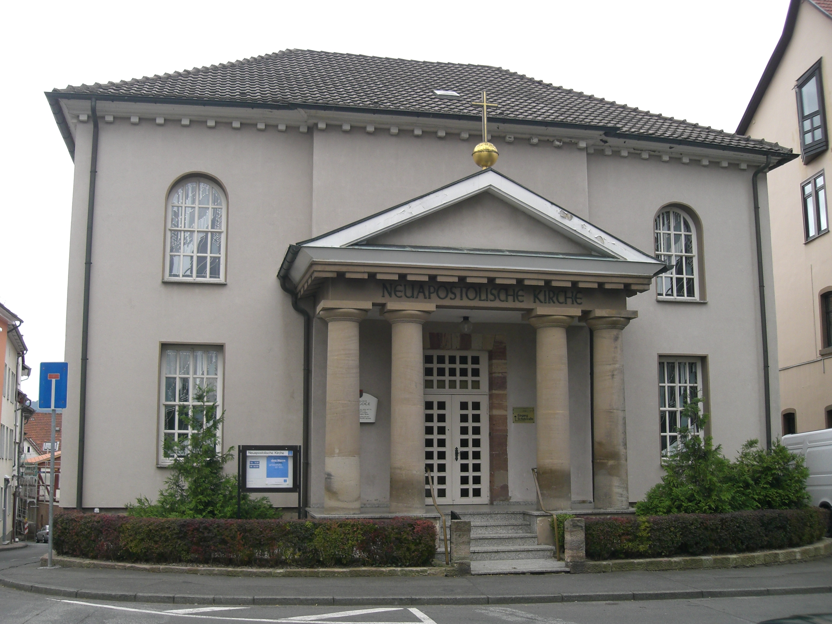 Former synagogue, today New Apostolic Church in Eschwege, Hesse, Germany. The sign at the entrance says (in German): Former synagogue. Neo-classical building of the years 1837-38. Defiled and devastated November 9th 1938. Today New Apostolic Church. In the Middle Ages the house of the von Keudell family stood here.